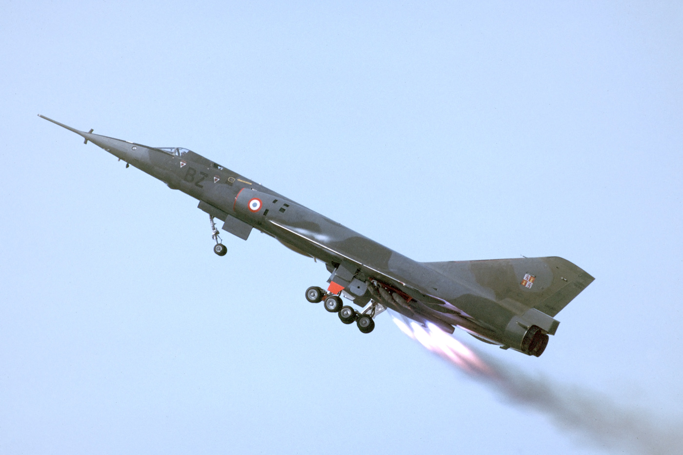 Mont de Marsan, 18 July 1998. 53/BZ is taking off for its display. For this kind of rocket-assisted take off (RATO), the Mirage had 12 solid-fuel rockets. Mont de Marsan was the home base of Escadron de Reconnaissance Stratégique 91 'Gascogne'.